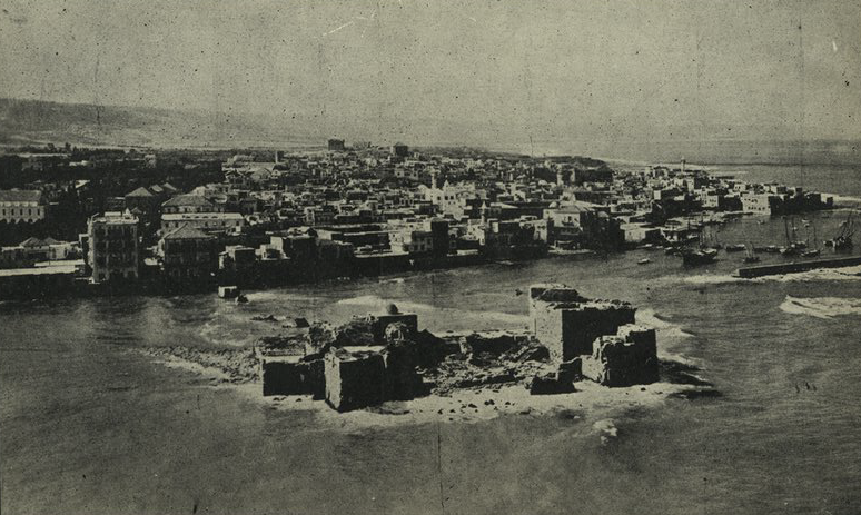 Citadel of Sidon - 1947